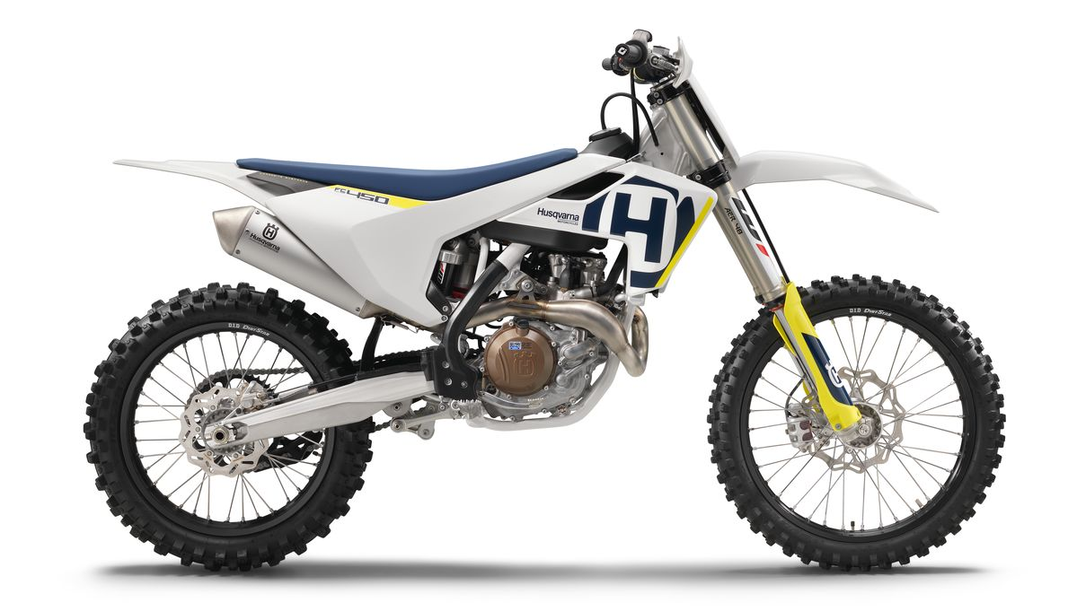 Husqvarna FC 450